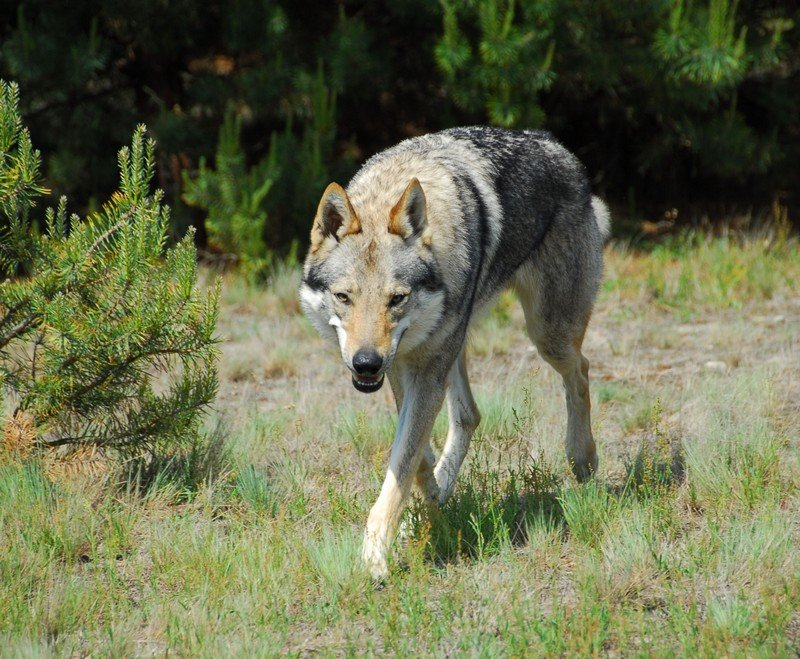 Typical movement